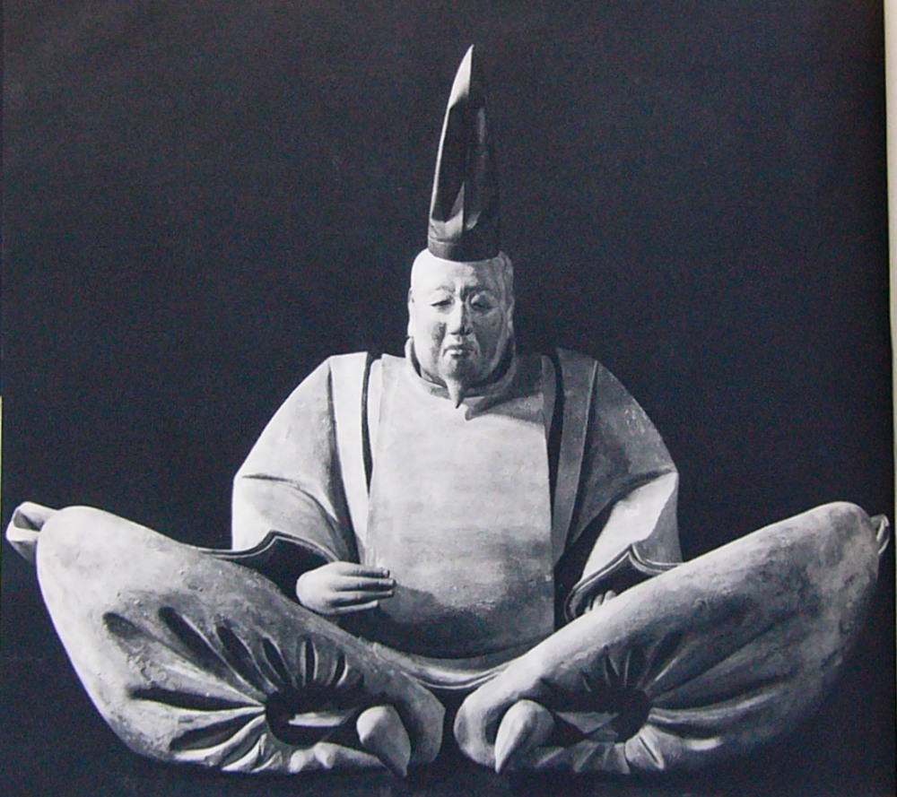 Portrait of UESUGI SHIGEFUSA (13th century), Wood, height: 68cm